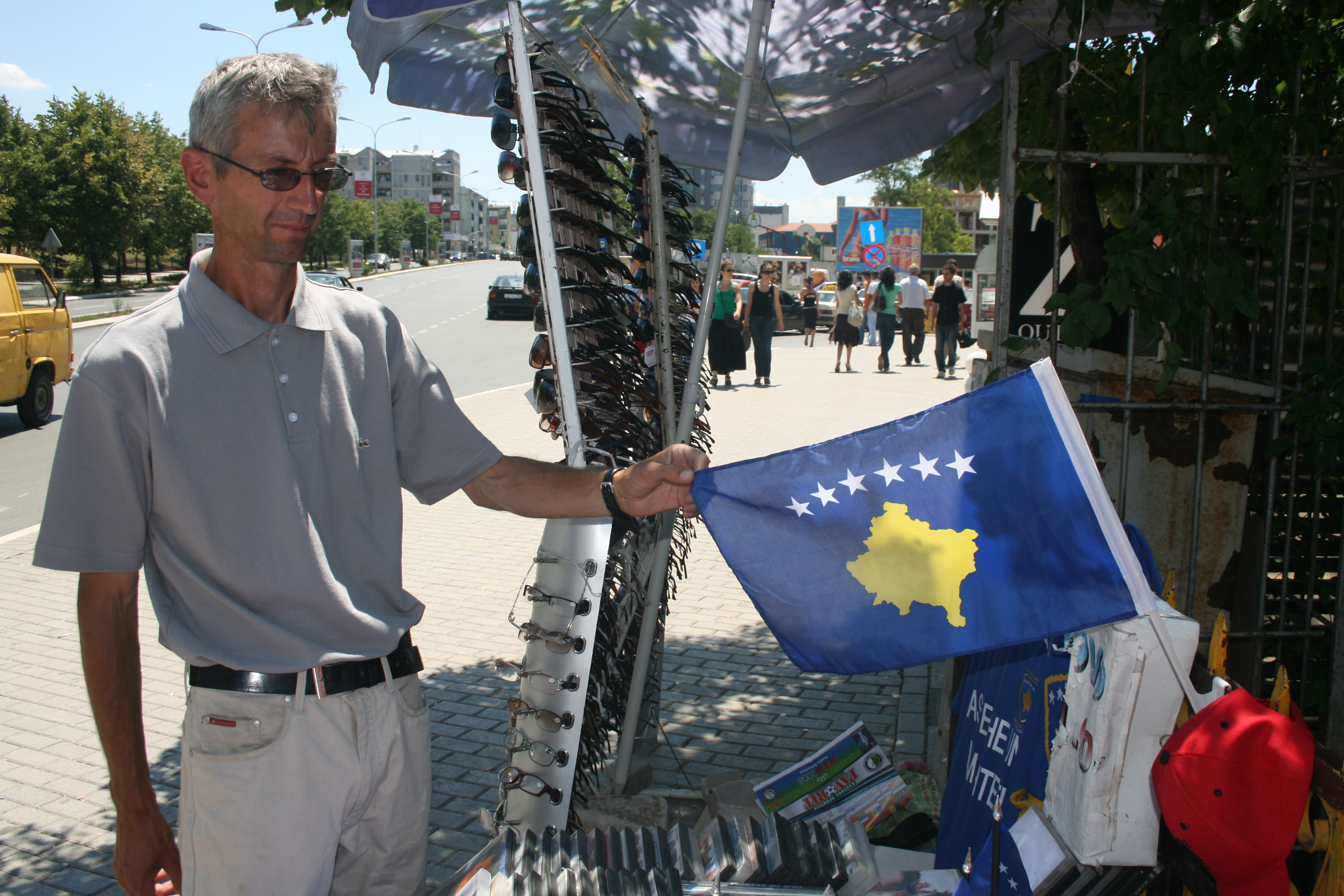 Red flag with a guerilla-feel has been replaced by the blue one that looks like the EU-flag